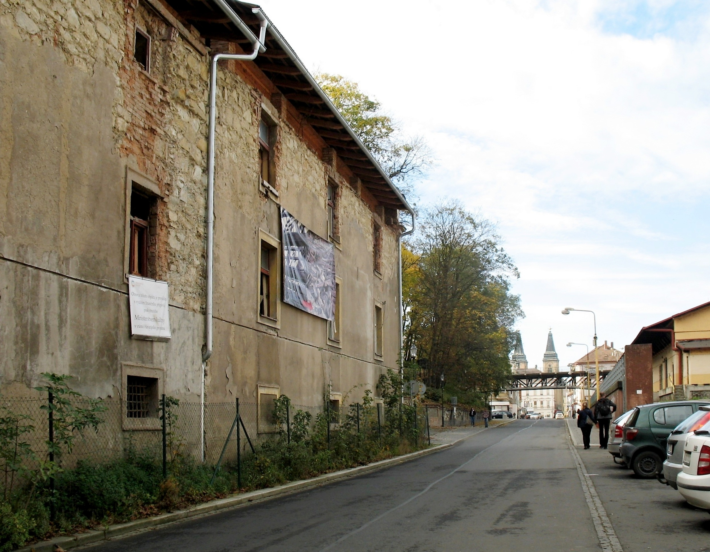 Old castle brewery in Roudnice nad Labem, Czech Republic